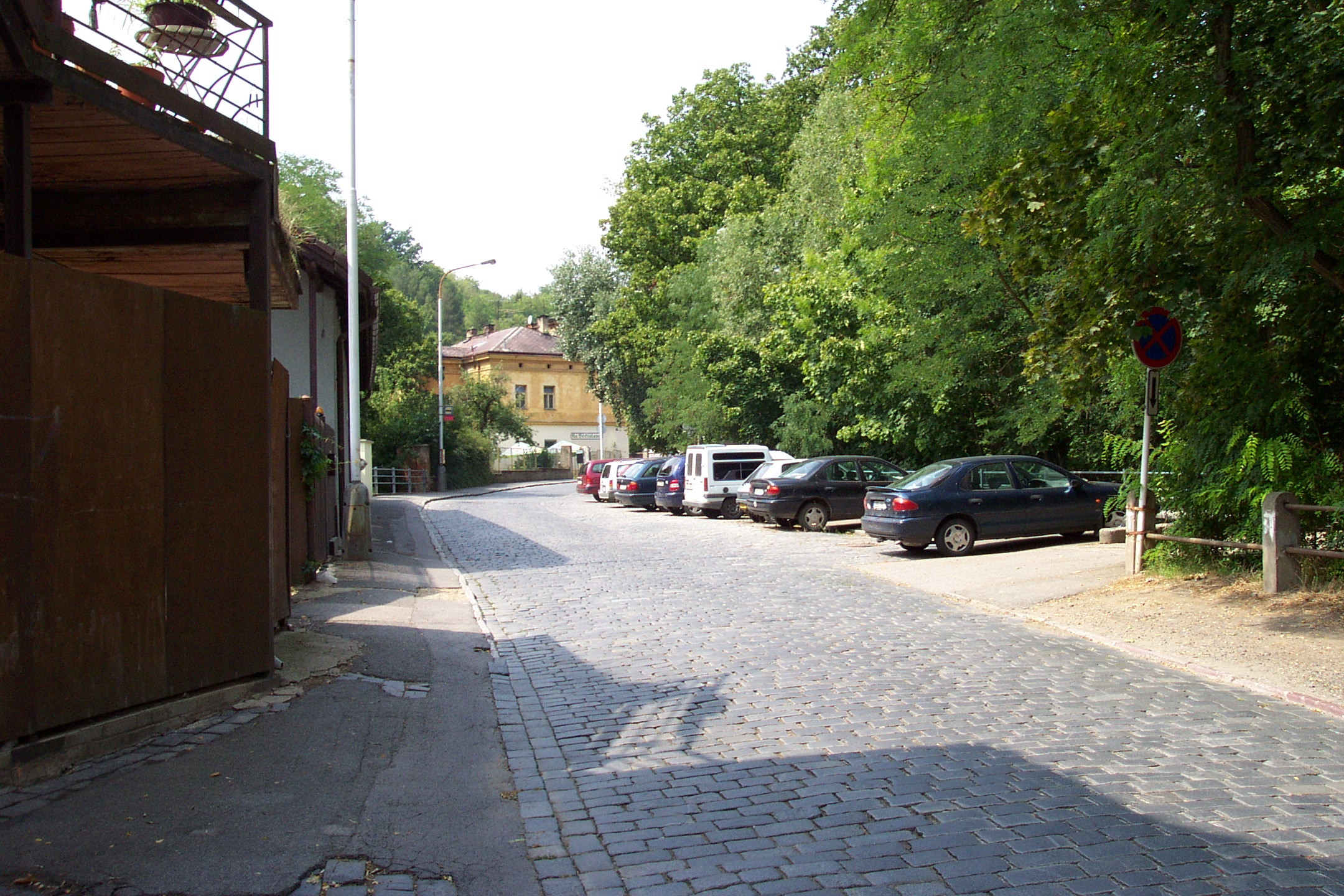 Dejvice, Břetislavka area